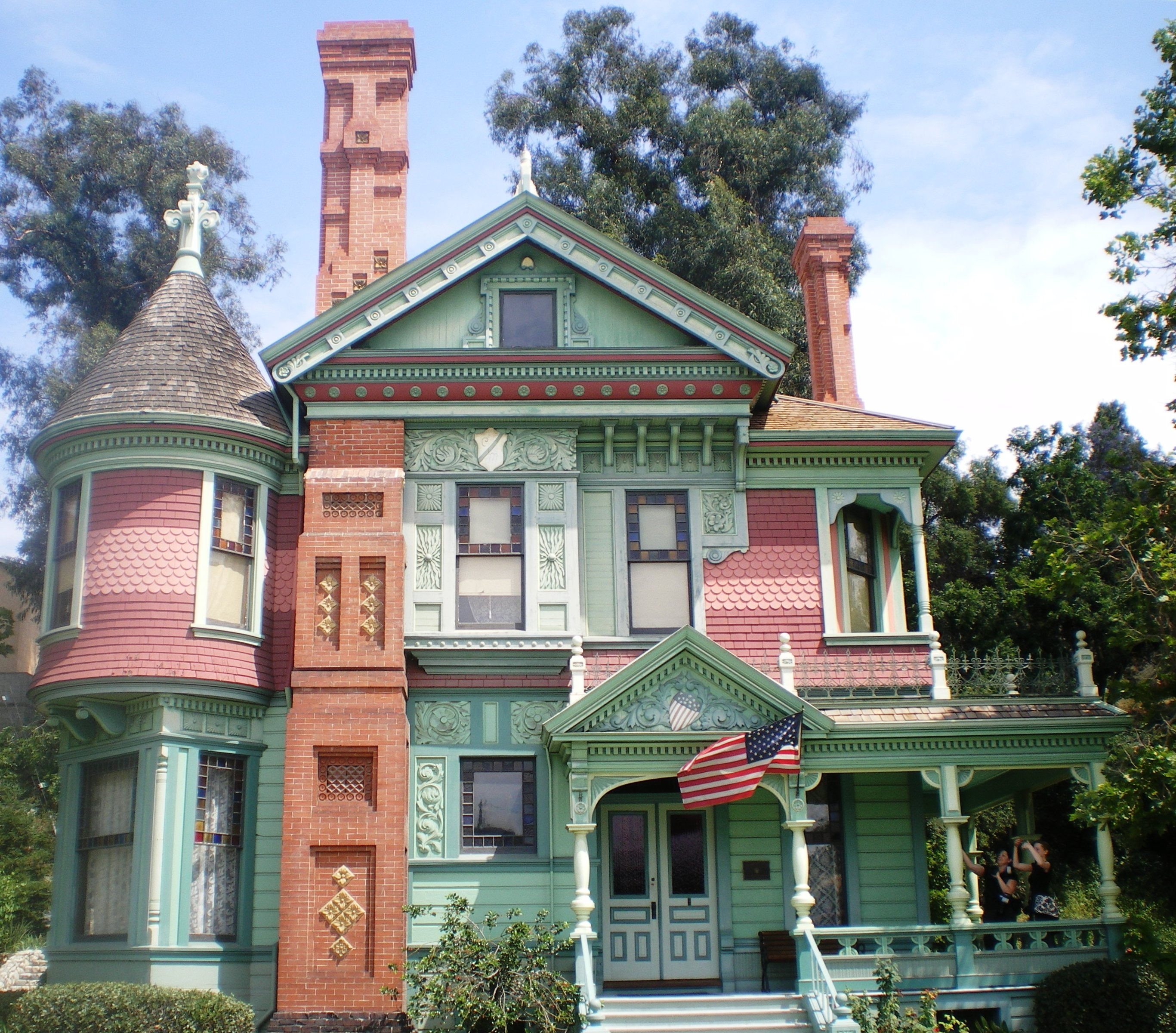 Photograph of front facade of the Hale House — at Heritage Square Museum, north-central Los Angeles, California. The Victorian Queen Anne style house was located in the nearby Highland Park district for 85 years (1885 - 1970). The Hale House is a Los Angeles Historic-Cultural Monument, and on the National Register of Historic Places. Located since 1970 at the open air Heritage Square Museum (with 7 other historic buildings), in the Arroyo Seco (3800 Homer Street), Los Angeles.